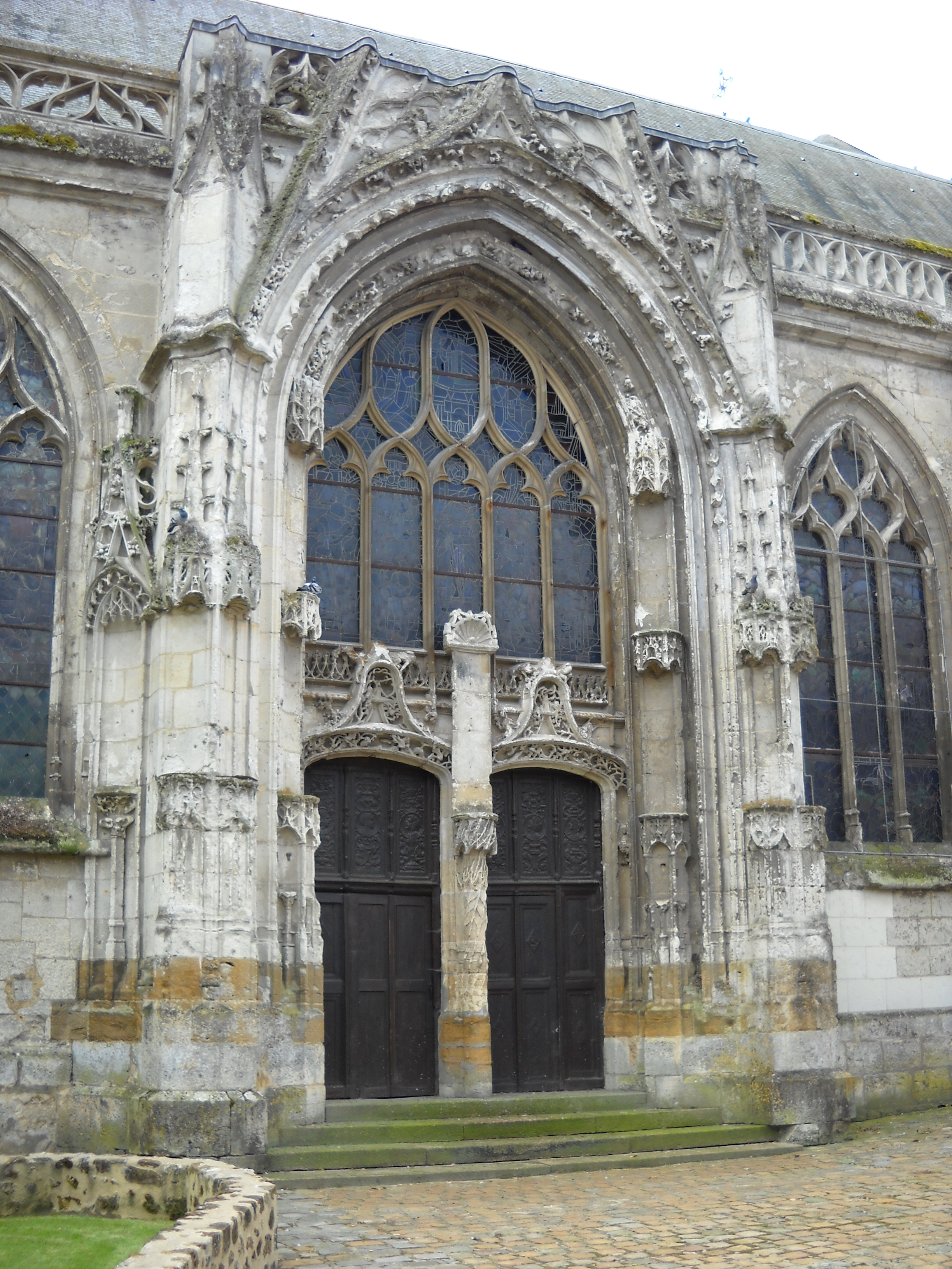 The north side of the church of Mortagne-au-Perche, Orne, France.